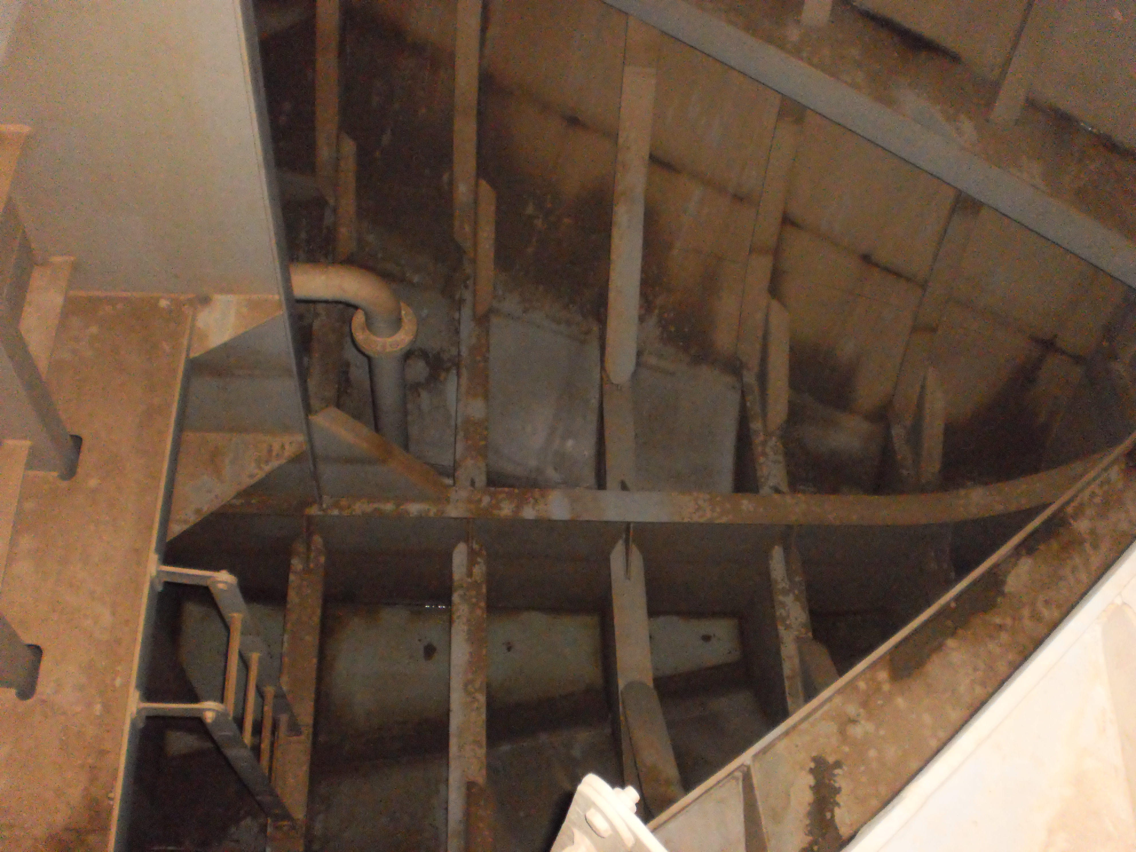 Boottom part of forepeak tank. Total capacity 140 cubic meters. Frame spacing 60 cm.